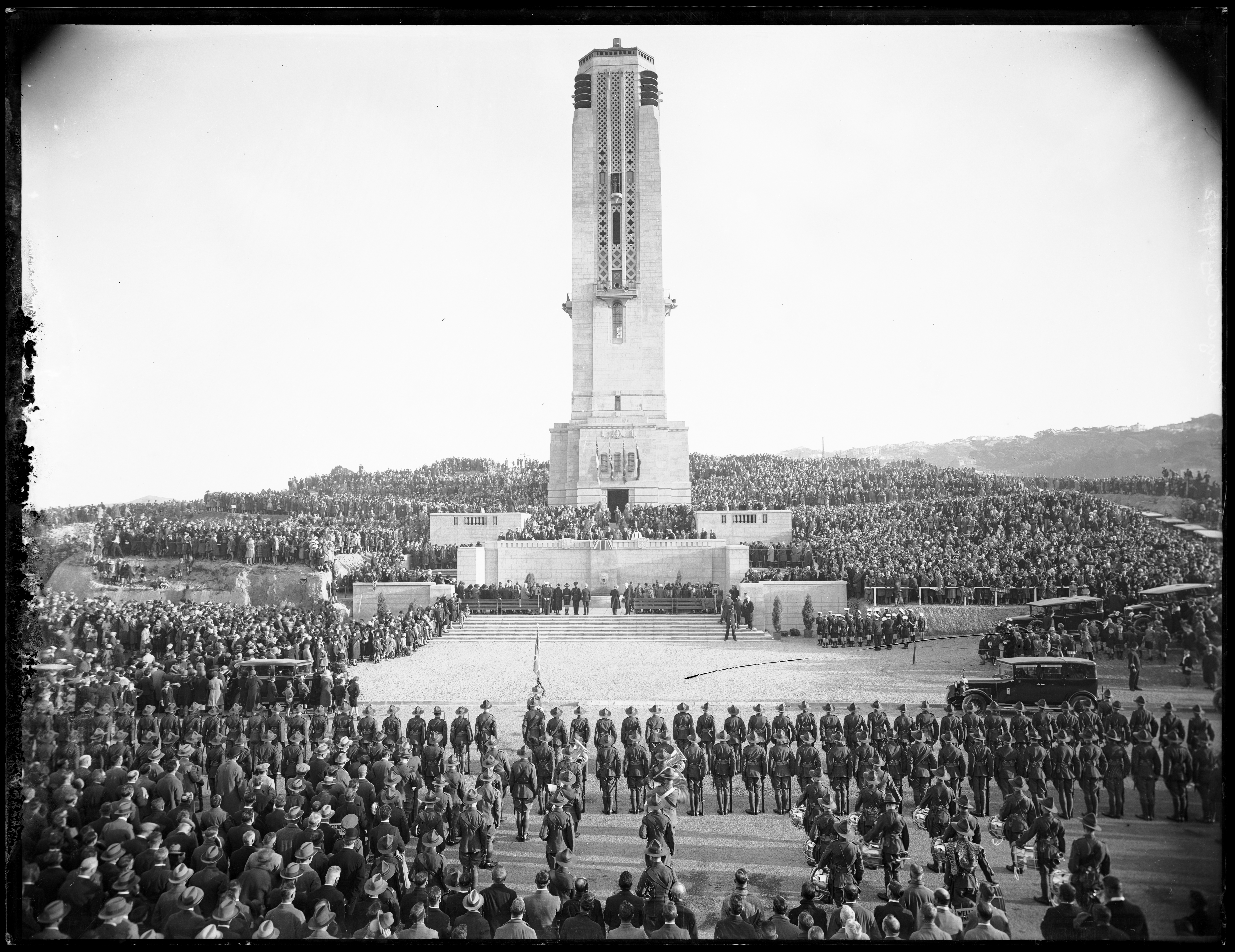 Photographer: William Hall Raine (1892-1955)[1] The dedication of the National War Memorial Carillon, Wellington, 25 April 1932 Reference number: 1/1-018026-G Glass negative Photographic Archive, Alexander Turnbull Library. Heritage New Zealand Register number: 1410.